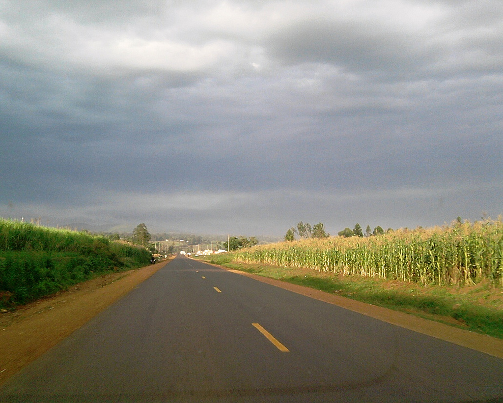 Awendo Countryside, Migori, Kenya